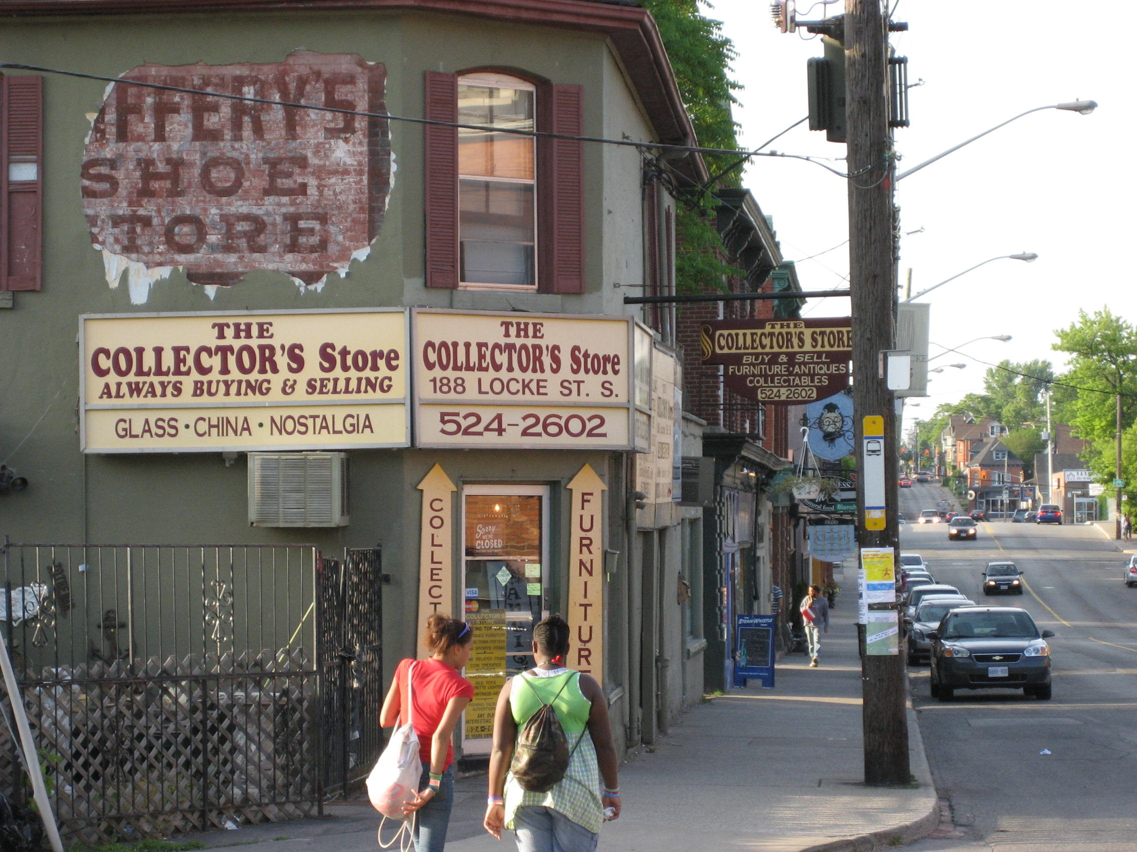 Walking tour, Locke Street South, Hamilton, Ontario